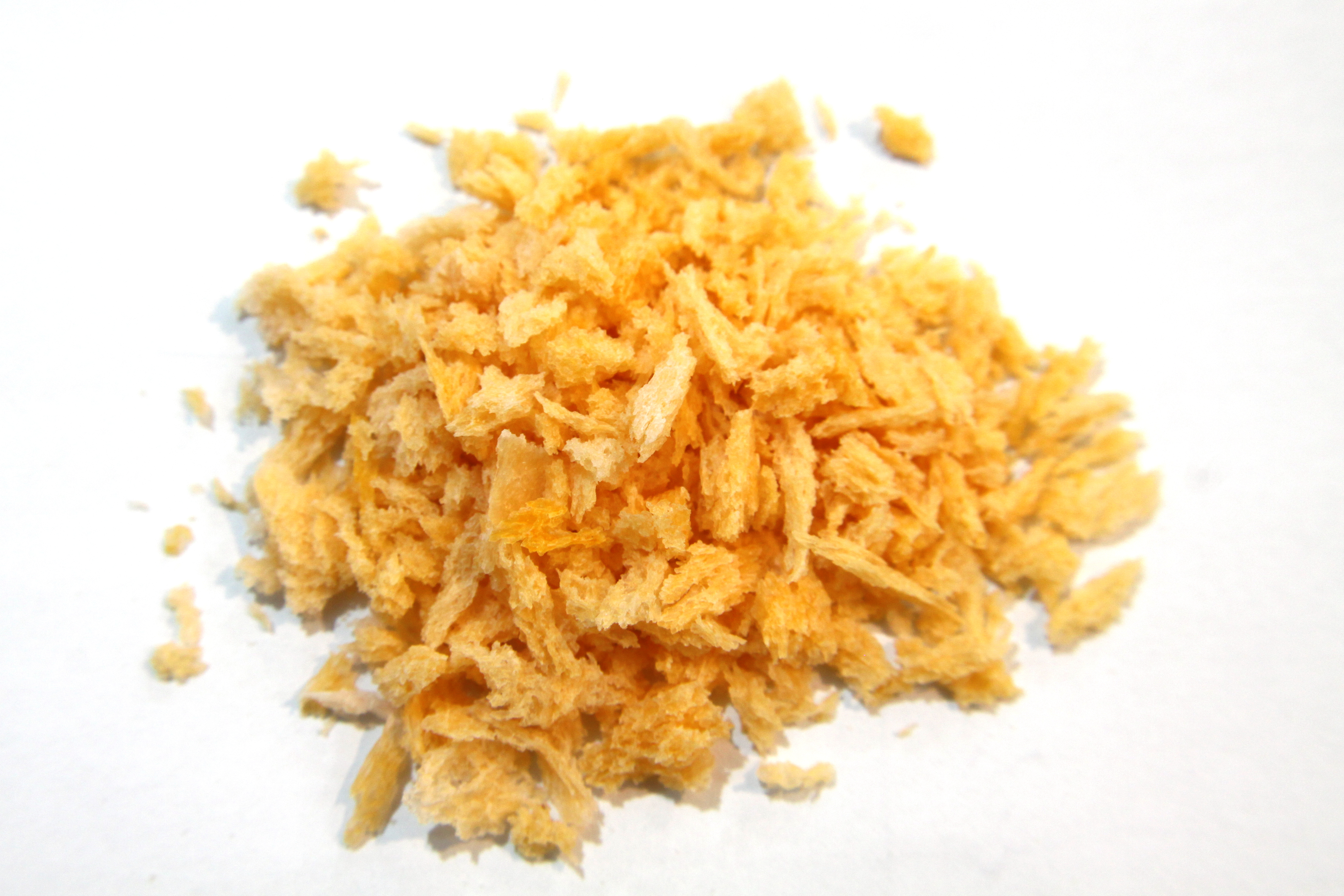 File name: 970610-IMG 7043-2-Panko-Paprika-1 Panko Breadcrumbs with Paprika flavour Produced by Aftab Tejarat Negin (ATN) Co. Ltd. Date: September 1, 2018 Thanks to Aftab Tejarat Negin (ATN) Company